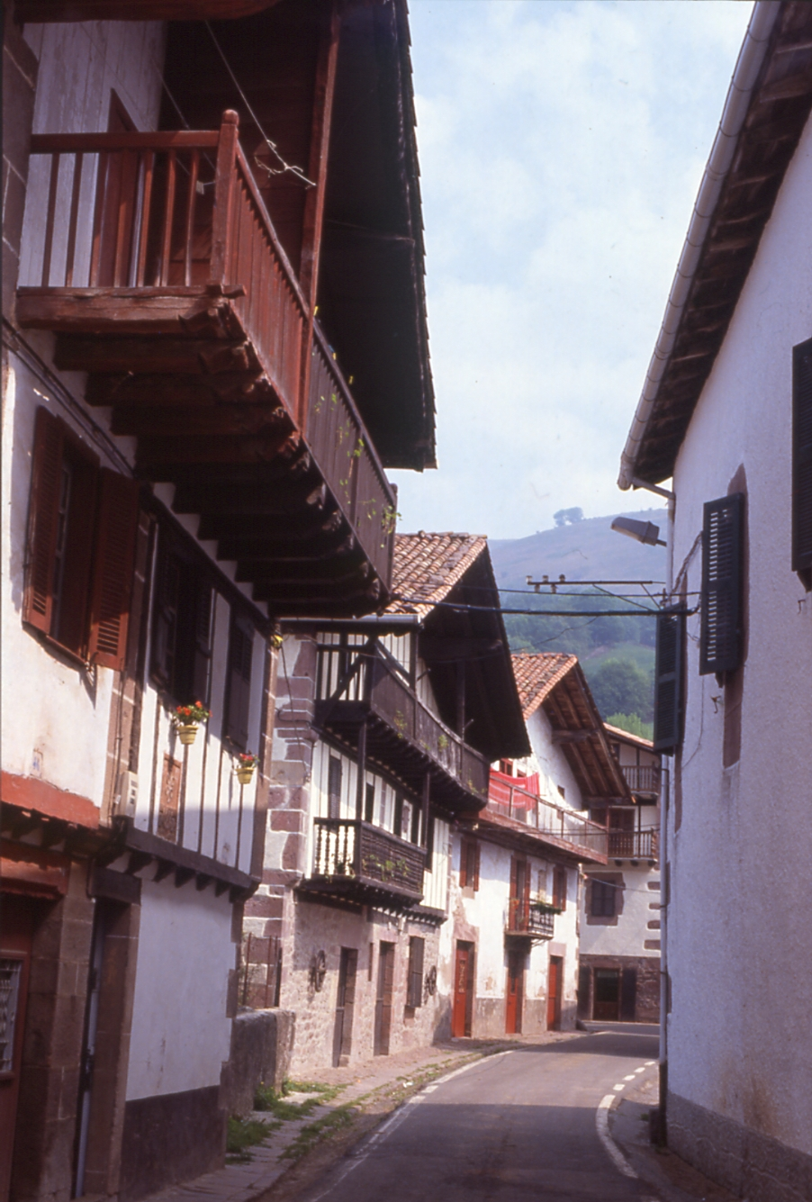 Village street in the in Navarra (Spain)